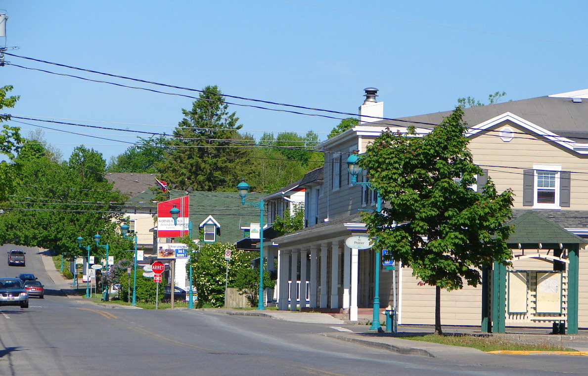 Sainte-Angélique Road in Saint-Lazare, Quebec, Canada